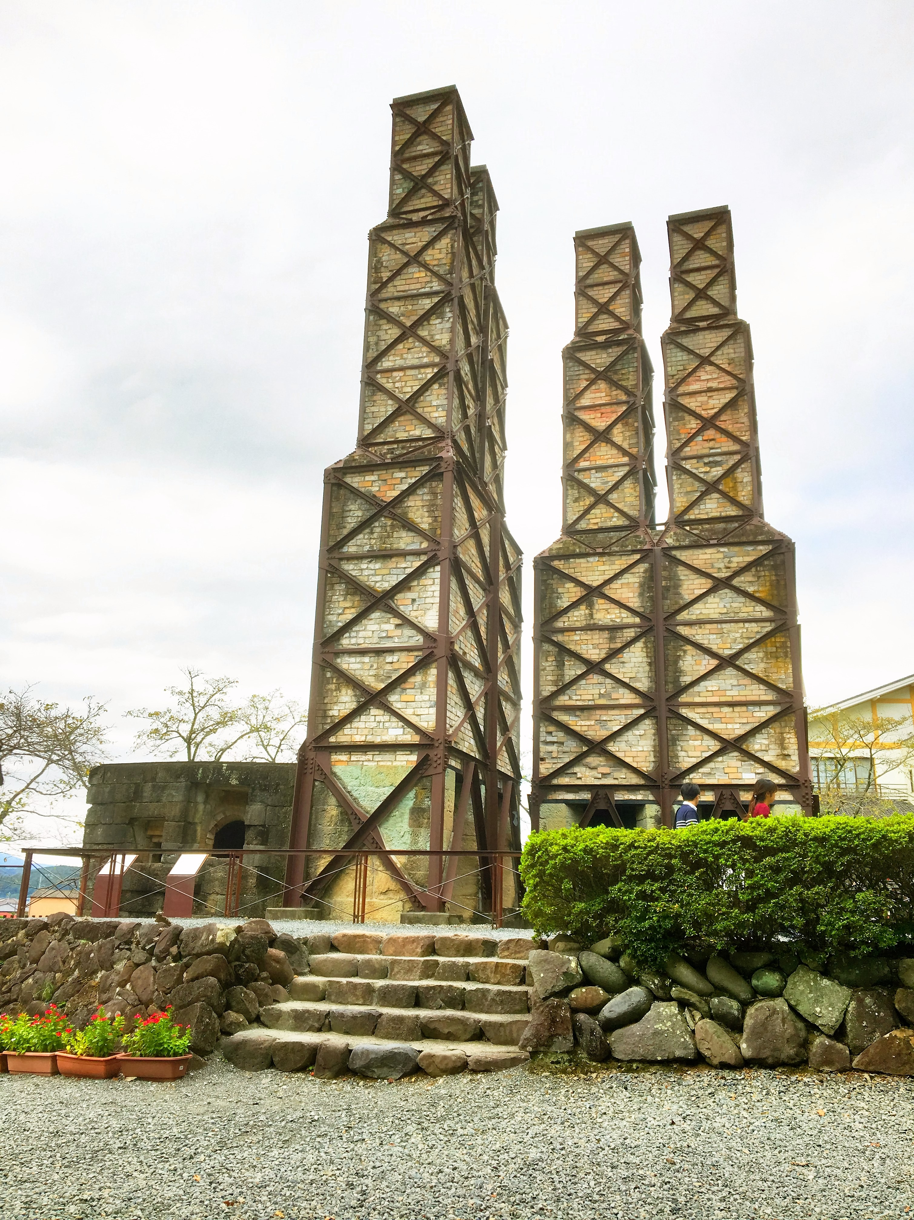 Nirayama Reverberatory Furnaces shizuoka-pref, izunokuni-city JAPAN